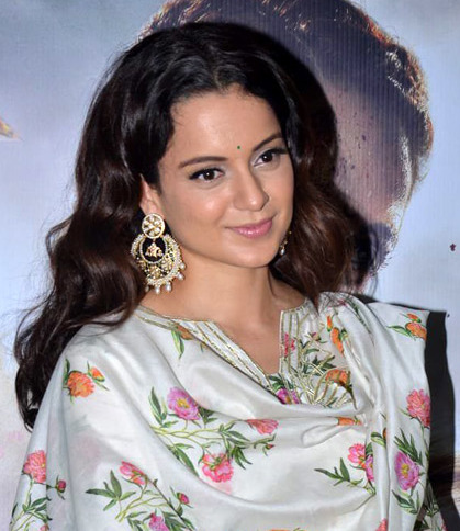 Kangana Ranaut graces the special screening of Manikarnika – The Queen Of Jhansi at Sunny Super Sound in Juhu